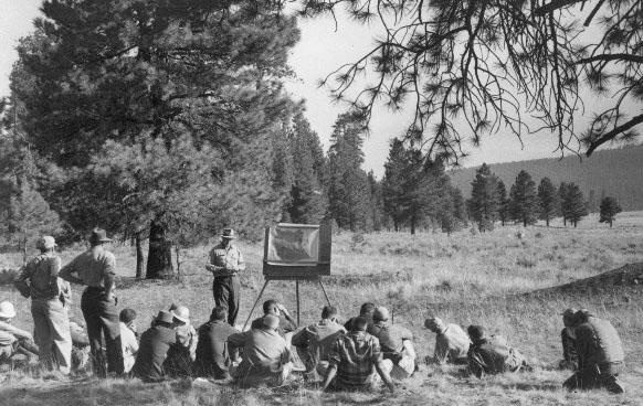 August 28, 1956 picture of Gus Hormay teaching rest-rotation at the California Forest & Range Experimental Station, Blacks Mountain.